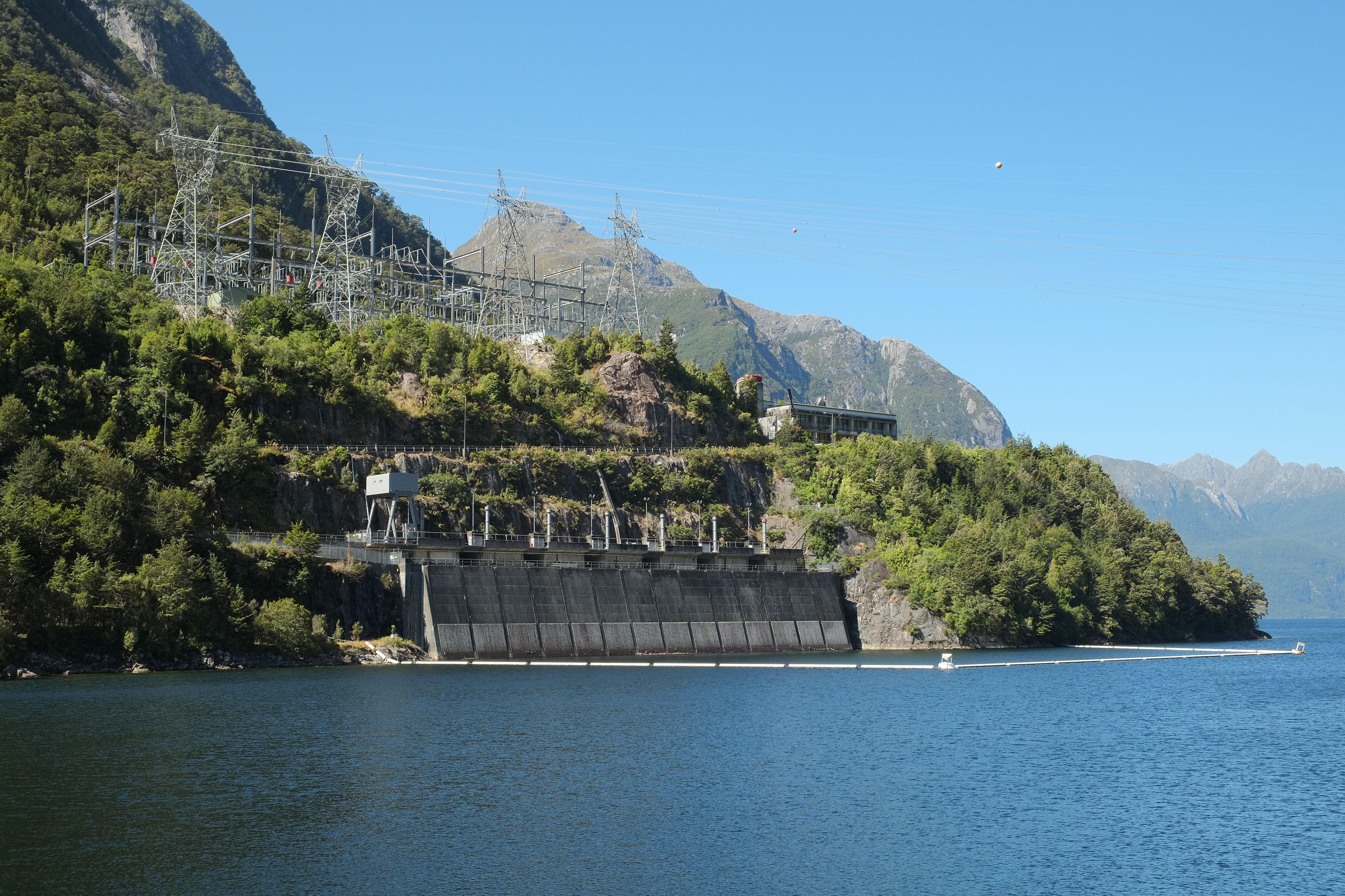 Intake of Manapouri hydroelectric power station at Lake Manapouri in the afternoon. A log boom in the lake in front of the head gates prevents debris being swept in. Near the top of the photo, the 220kV high-voltage cables span from the switchyard across the lake.